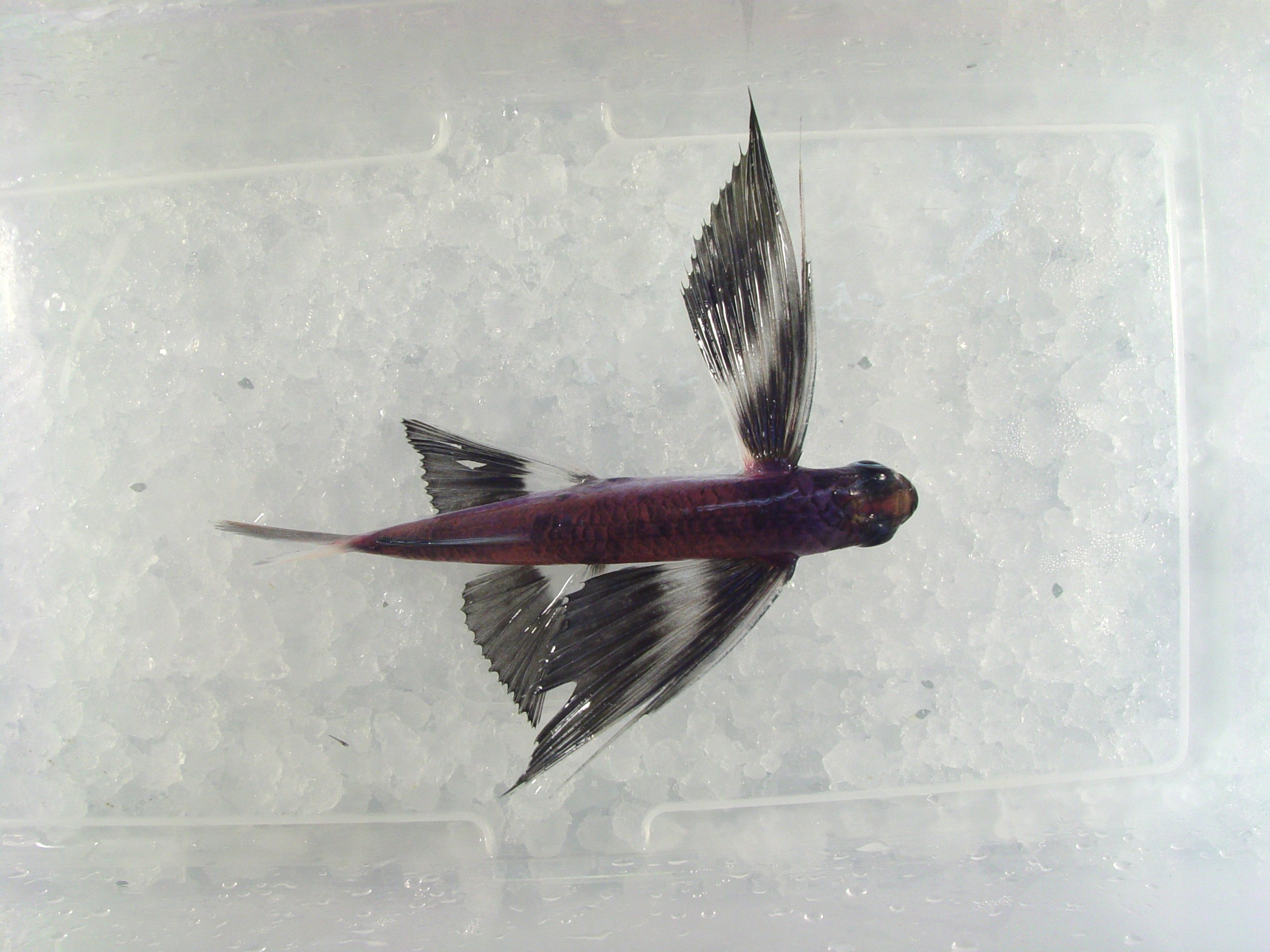 Cheilopogon exsiliens Life on the Edge 2005 Expedition